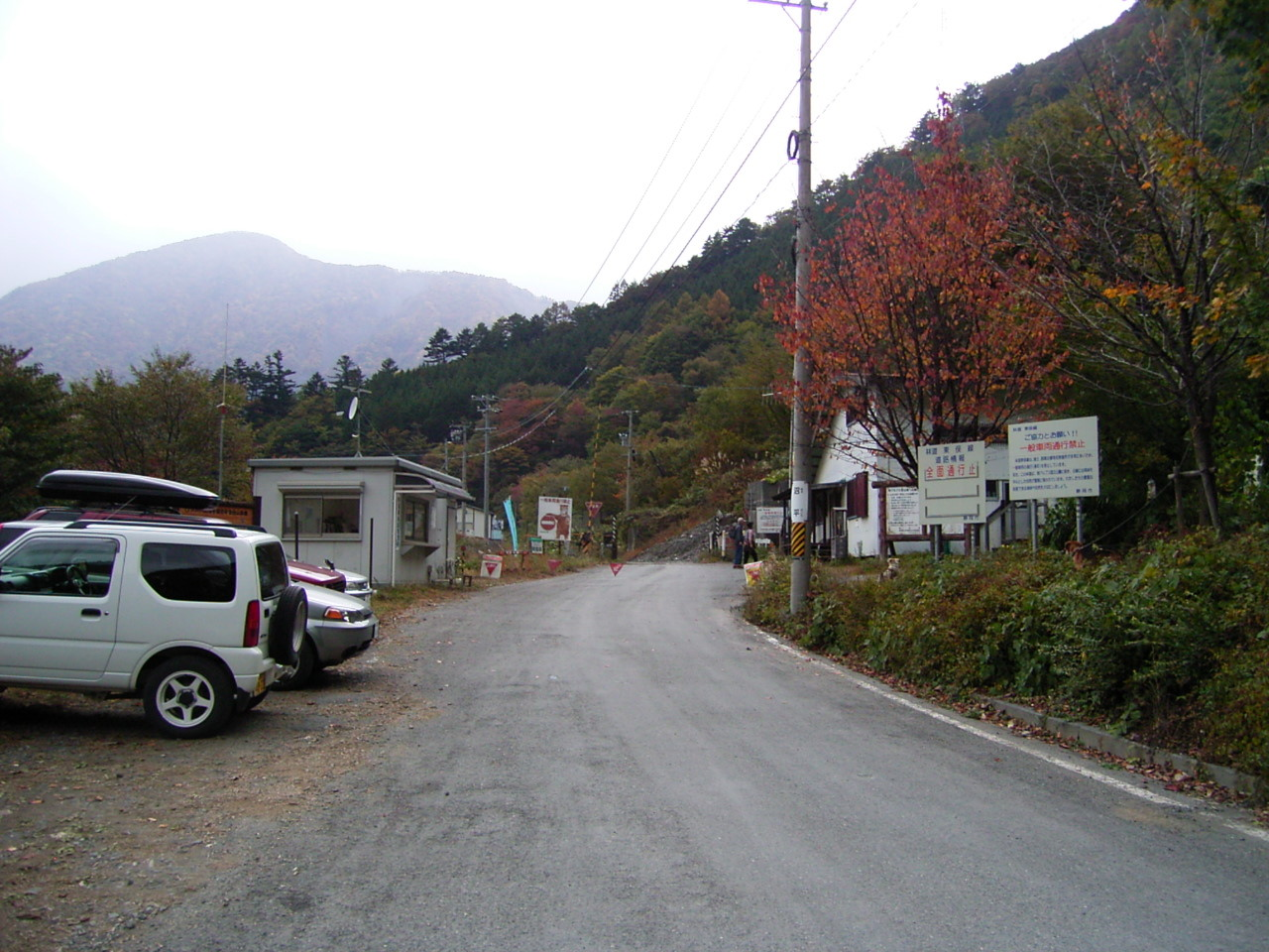 The starting point of Shizuoka prefectural road route 60